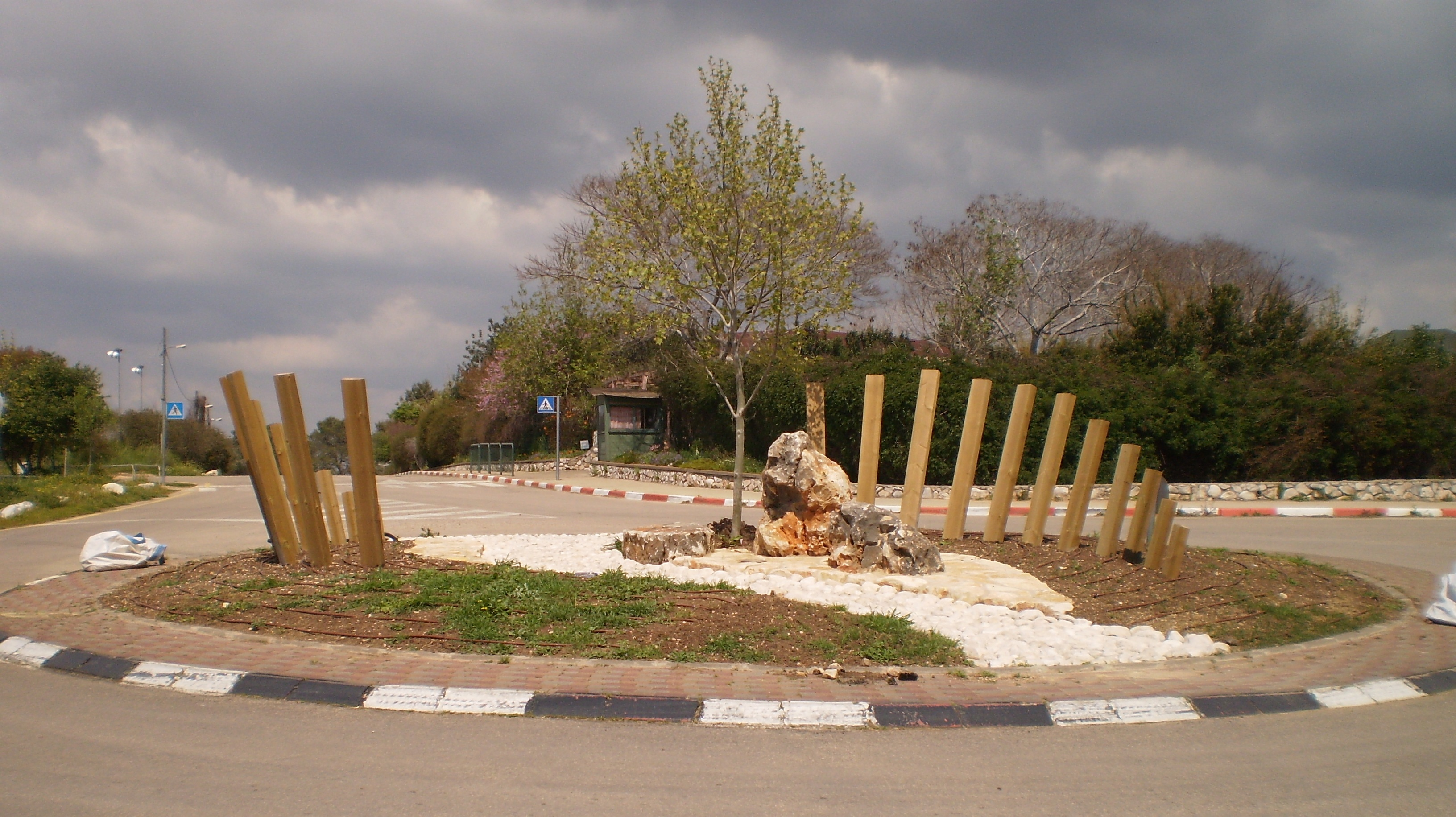 A square in Harduf